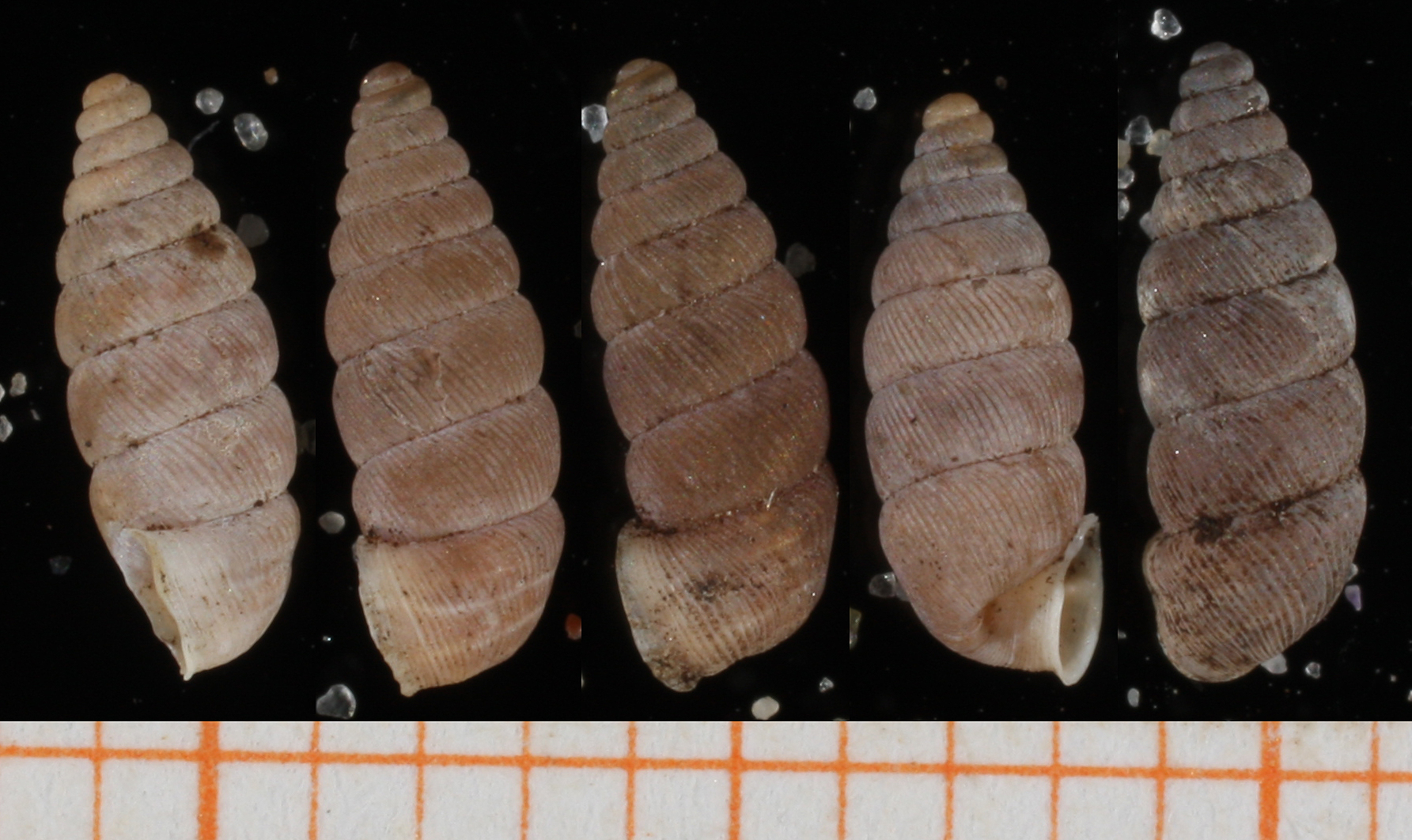 Abida vasconica (Kobelt, 1882), Chondrinidae, Pulmonata, Gastropoda, Locality: N Spain: Picos de Europa, Parador Fuende De, 1200 m